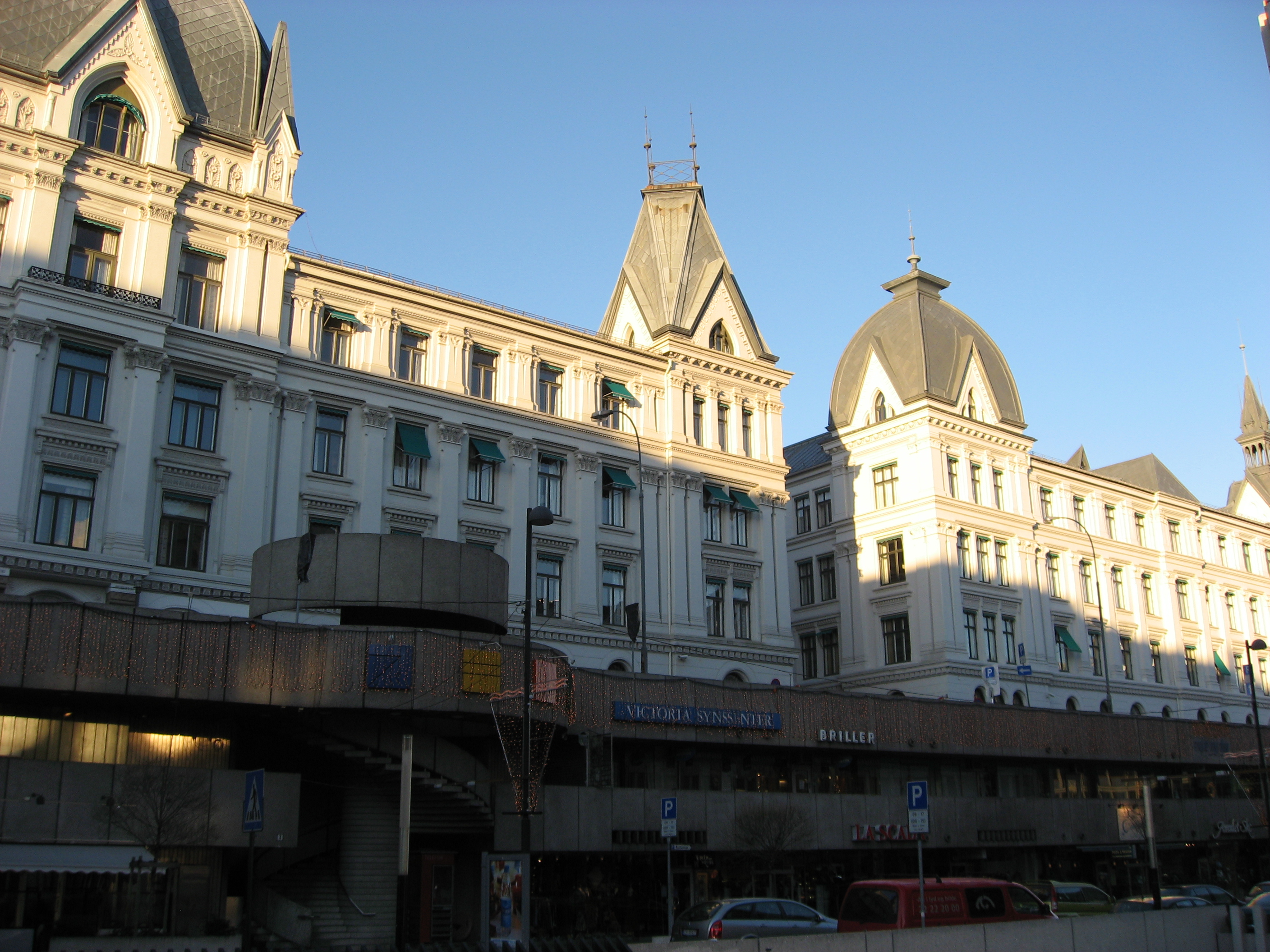 Victoria Terrasse, Oslo, Norway